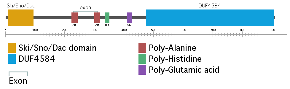 A diagram of the human Skida1 protein. Features shown are: Ski/Sno/Dac and DUF4584 domains; poly-alanine, poly-histidine, and poly-glutamic acid regions; and the exon that is included in one isoform and excluded in the other.